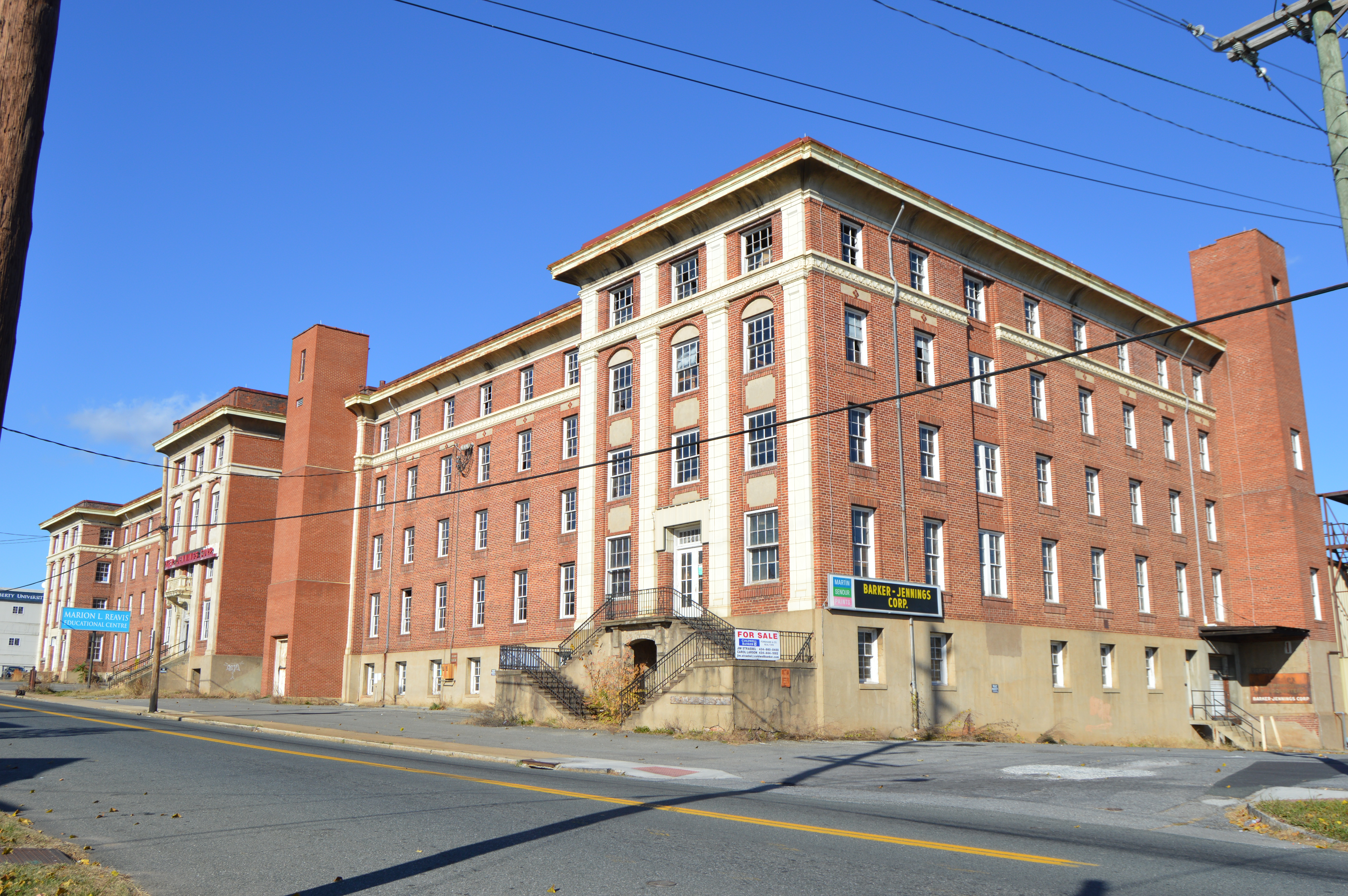 One of the warehouses on Campbell Avenue southeast of Twelfth Street in Lynchburg, Virginia, United States. This building and its neighbors are part of the Kemper Street Industrial Historic District, a historic district thatis listed on the National Register of Historic Places.